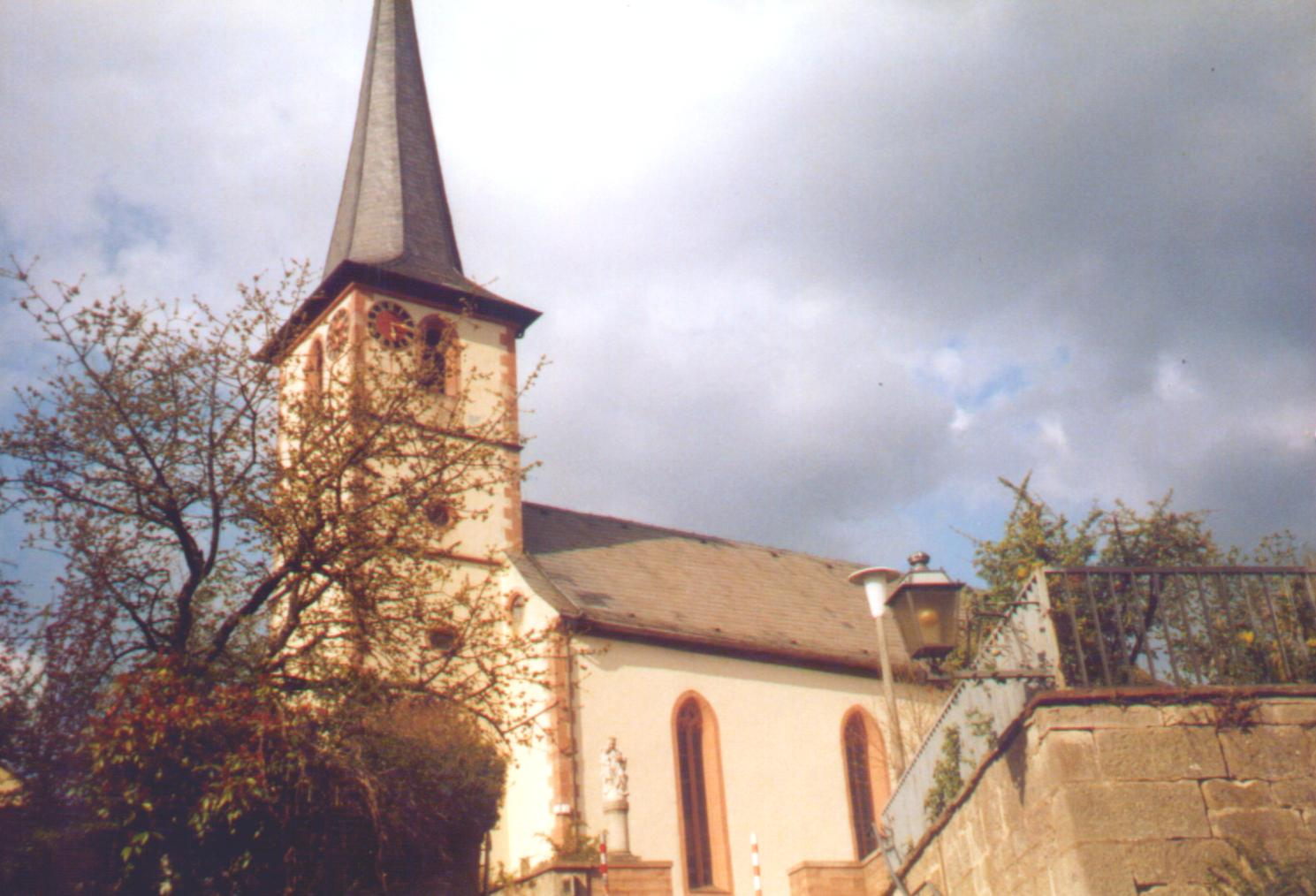 St.Trinitas Church in Aschach, a quarter of the Bavarian spa town of Bad Bocklet in Lower Franconia, Germany